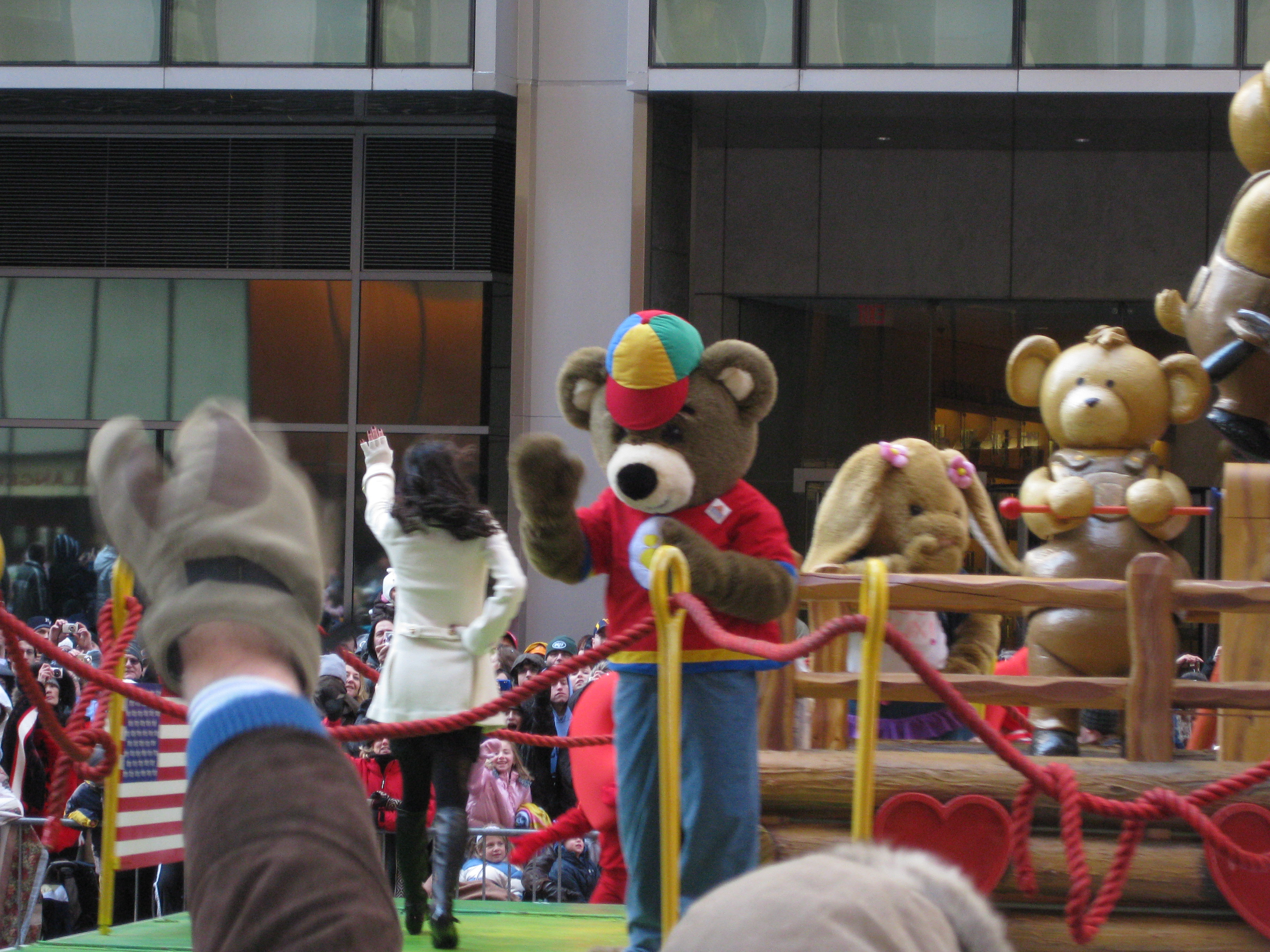 Miranda Cosgrove on the 2008 Macy's Thanksgiving Day Parade on the float for Build-a-Bear.